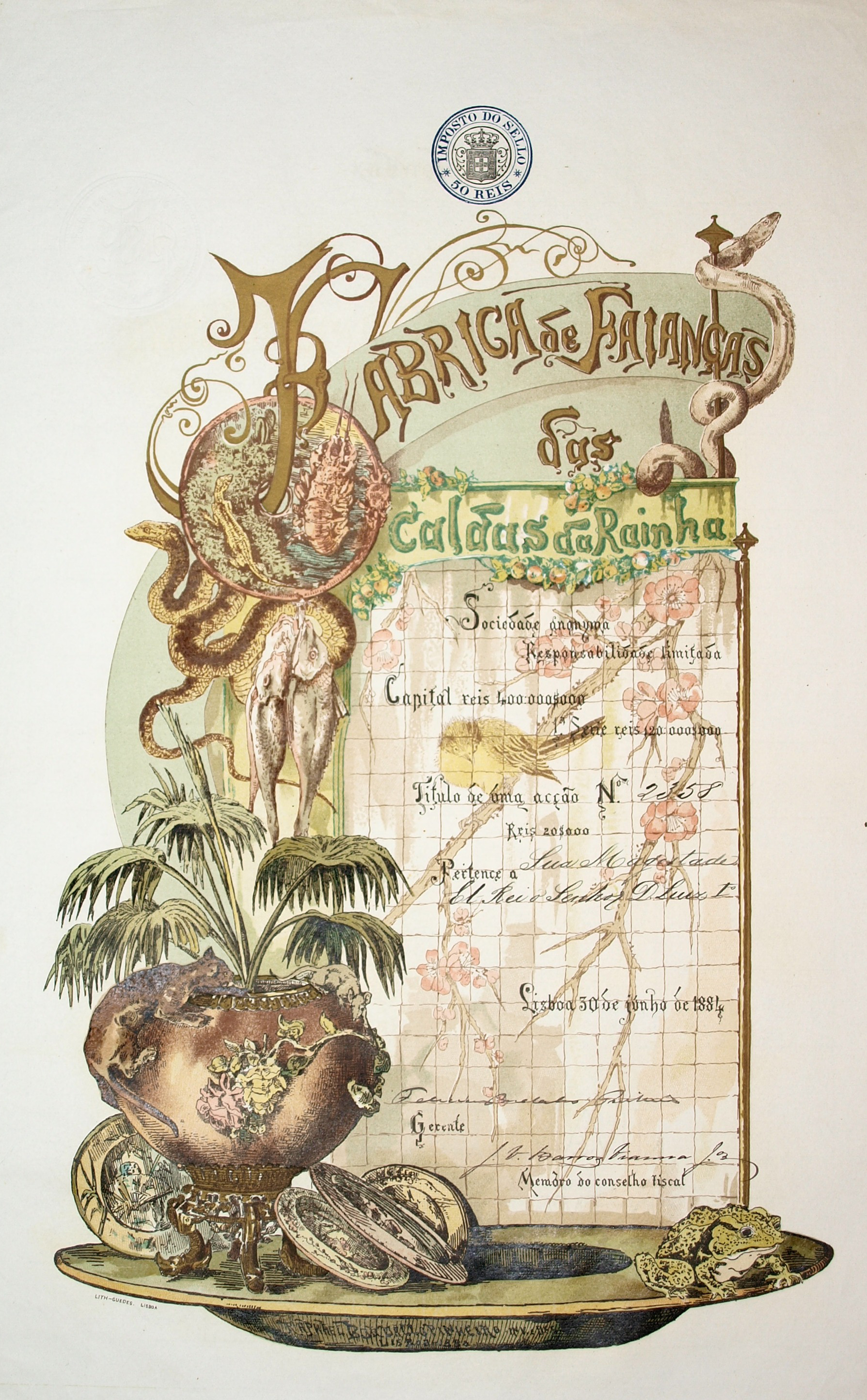 Share of the Fábrica de Faianças das Caldas da Rainha vom 30. Juni 1884; Probably the most magnificent stock certificate! Caldas da Rainha (= thermal springs of the queen) was founded already in the 15th century by the Portuguese queen Dona Lenor. Under the leadership of her husband Johann II Portugal became the leading sea and colonial power of Western Europe. Caldas da Rainha, the place where the porcelain and faience manufactory was built, is a therapeutic bath and was the favoured summer residence of the Portuguese monarchs. The Fabrica de Faiancas was founded in the year 1884 and still exists nowadays and is a great object of interest. The share certificate was designed by Raphael Bordalho-Pinheiro (1847-1905) and shows many of his favoured animal motifs. The execution of the artwork is very complex, because 11 colours were necessary for the print of the picture, whereas each single share certificate had to be printed manually.